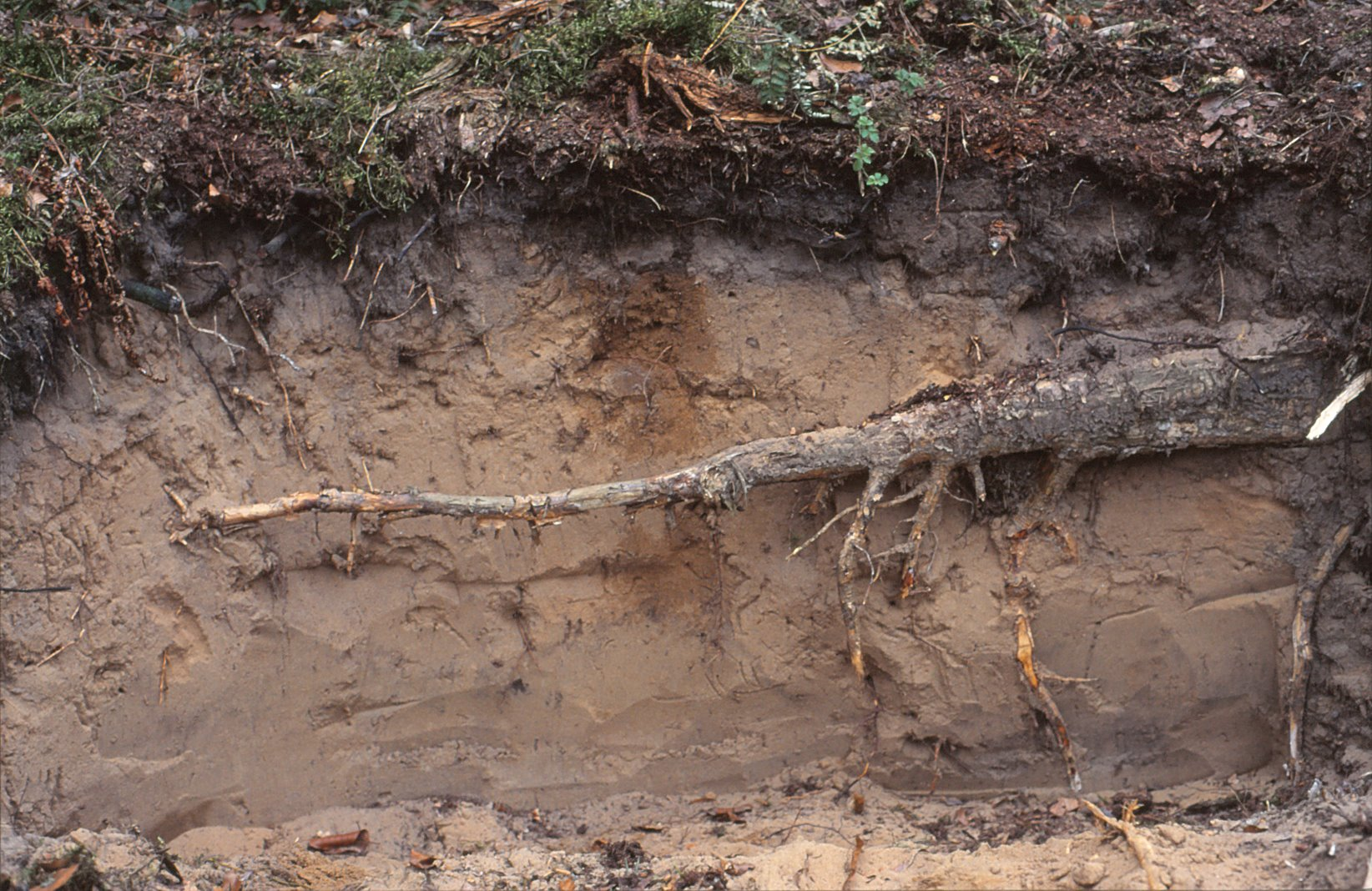 Regosol on sand dune deposits. Rhine Valley near Rastatt, Germany